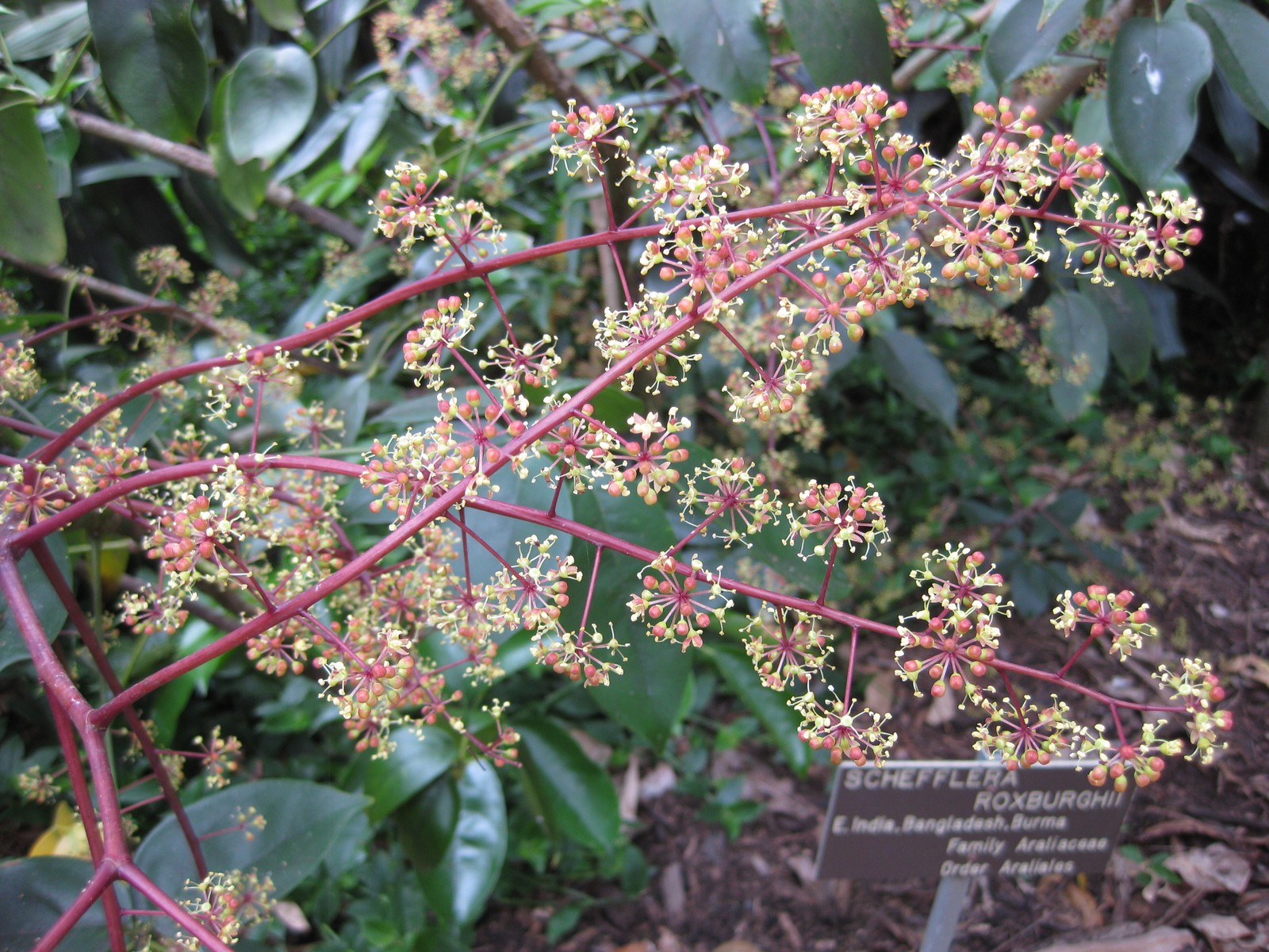 Photographed at the Royal Botanic Gardens Sydney (Australia) in January